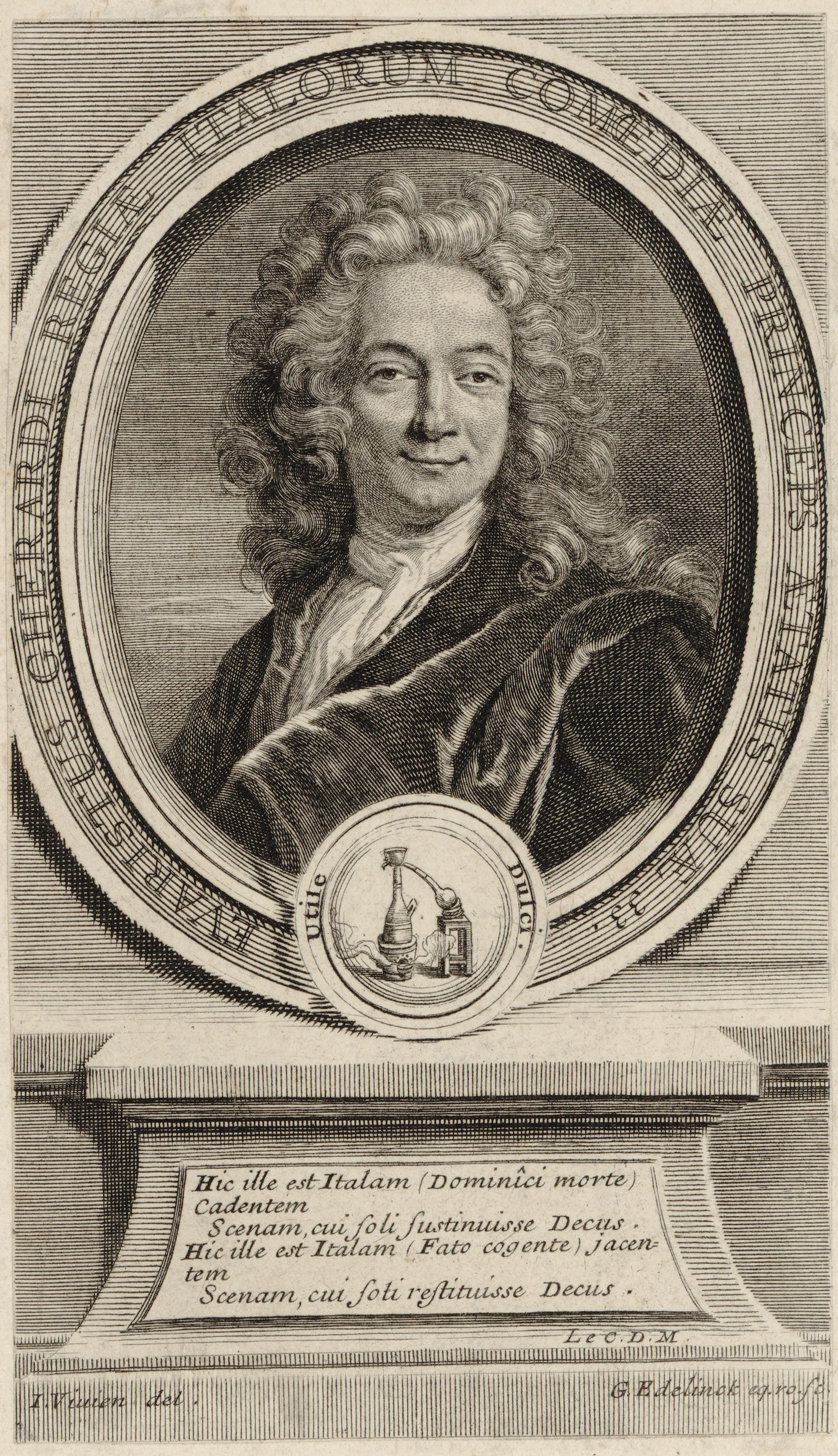 Portrait of Italian actor and author Evaristo Gherardi (1663-ca.1701) by Gérard Edelinck after Joseph Vivien (1657-1735)